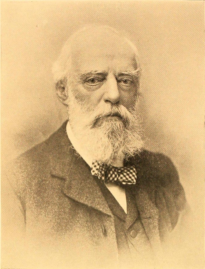 William Thomas Blanford (7 October 1832 – 23 June 1905)